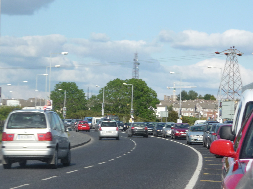 Looking back East along the Westbound queue for the Menlo Park Roundabout on the N6 in Galway City.